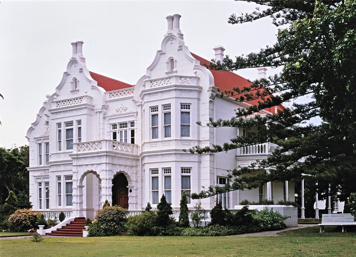 This media shows a South African Protected Site with SAHRA file reference 9/2/026/0015.